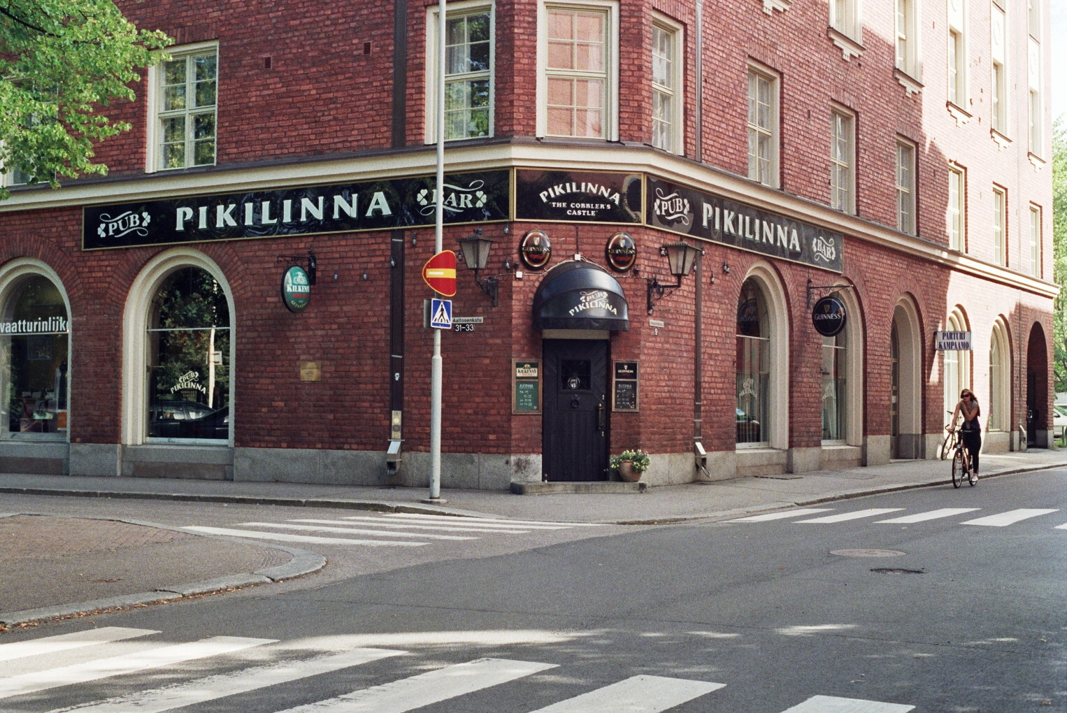 Pub Pikilinna, an irish-style public house in the Tammela district of the city of Tampere in Finland. Pikilinna, the building itself, was designed by architect Birger Federley as a large apartment building and constructed in 1924.